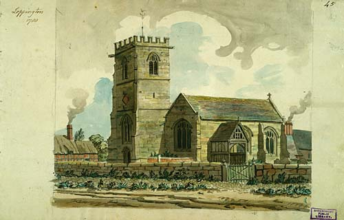 Saint Michael's Church, Loppington, Shropshire, England; "This watercolor was painted by Rev. Williams in 1788. St. Michael's church in Loppington was built during the later half of the 14th century."